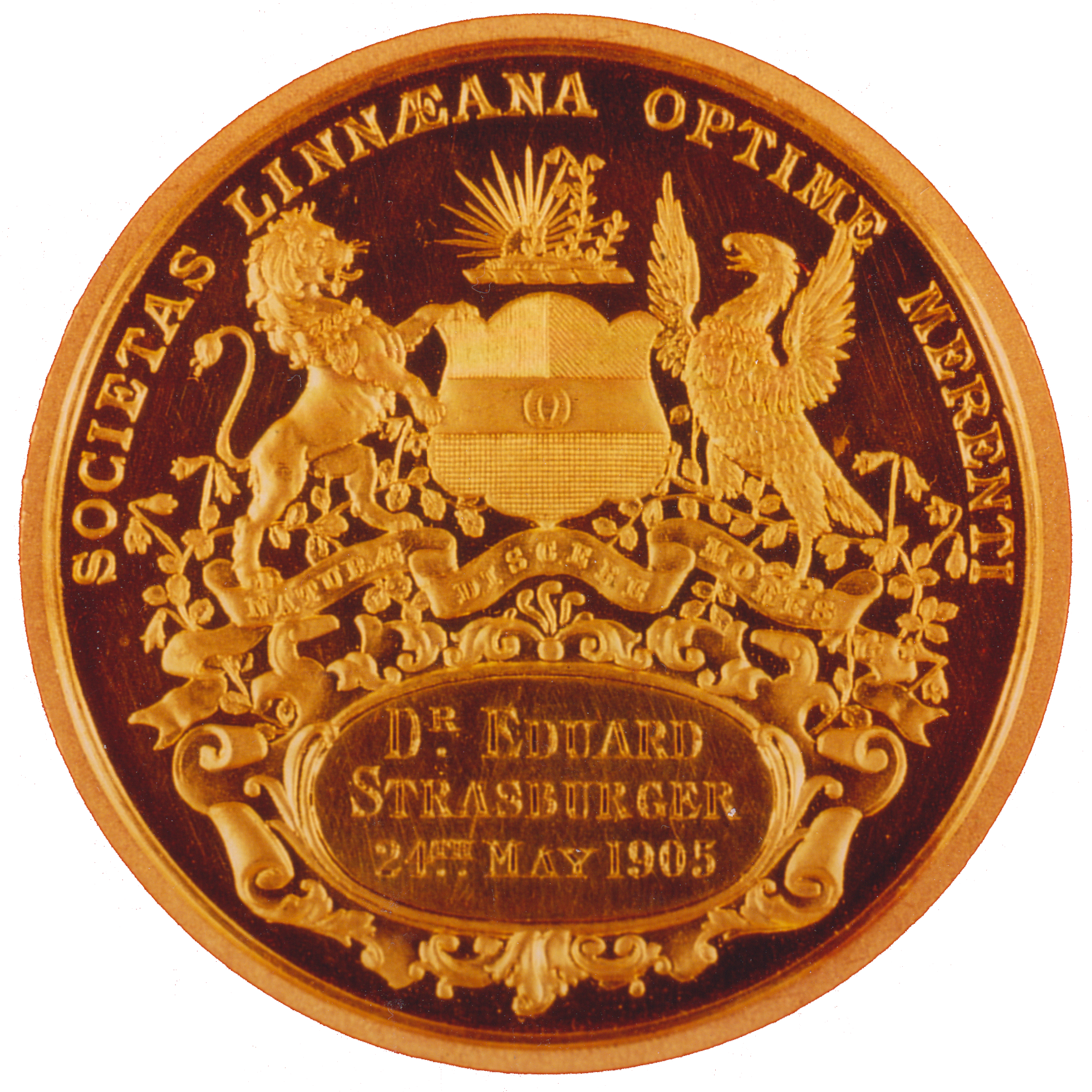 Linnean Medal awarded to the botanist Eduard Strasburger (1844-1912) in 1905.